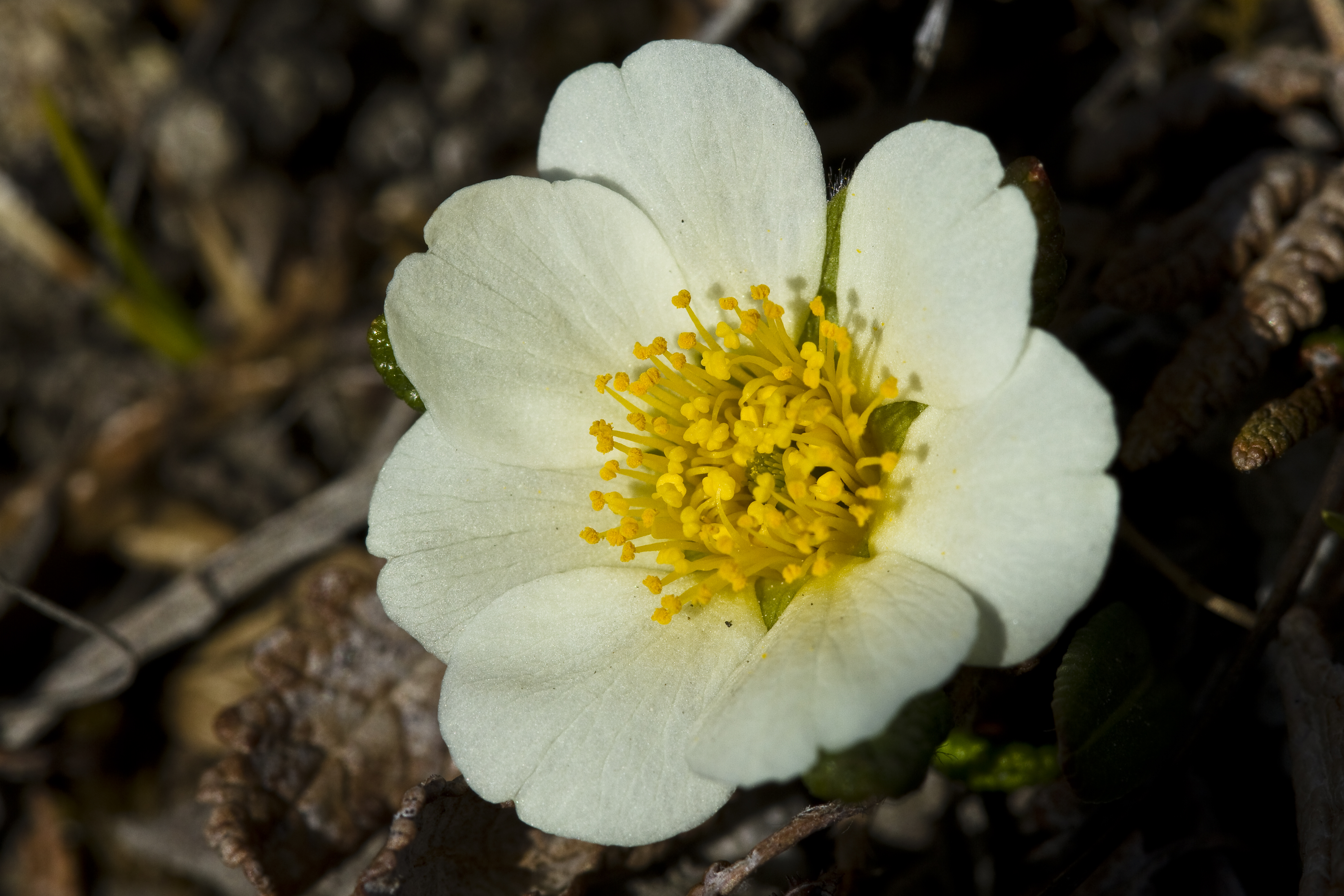 Dryas octopetala, Denali National Park and Preserve, AK, USA